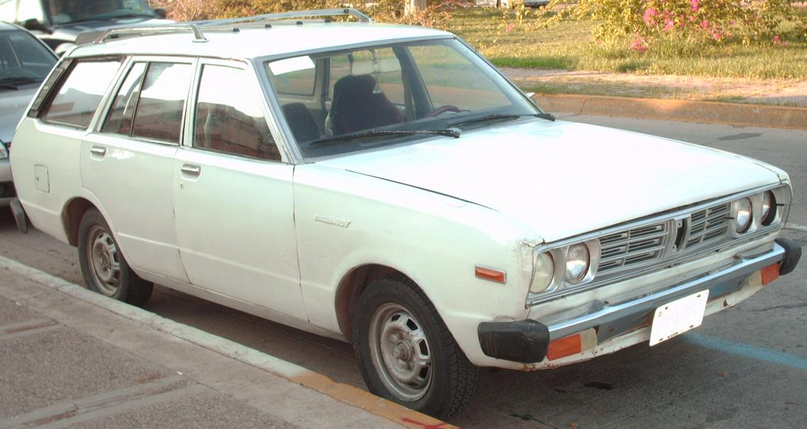 1977-1981 Datsun 160J photographed in Mazatlan, Sinaloa, Mexico.